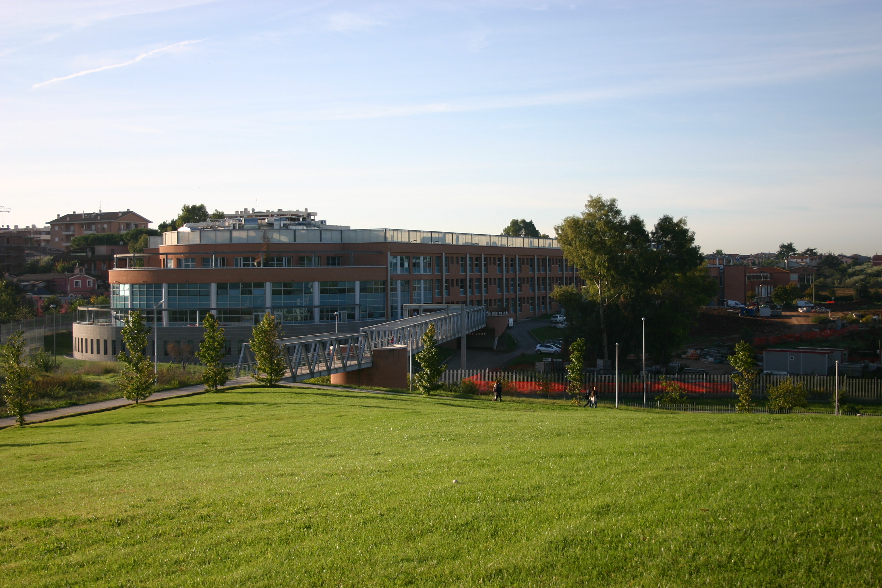 Research Center, Campus Bio-Medico University, Rome